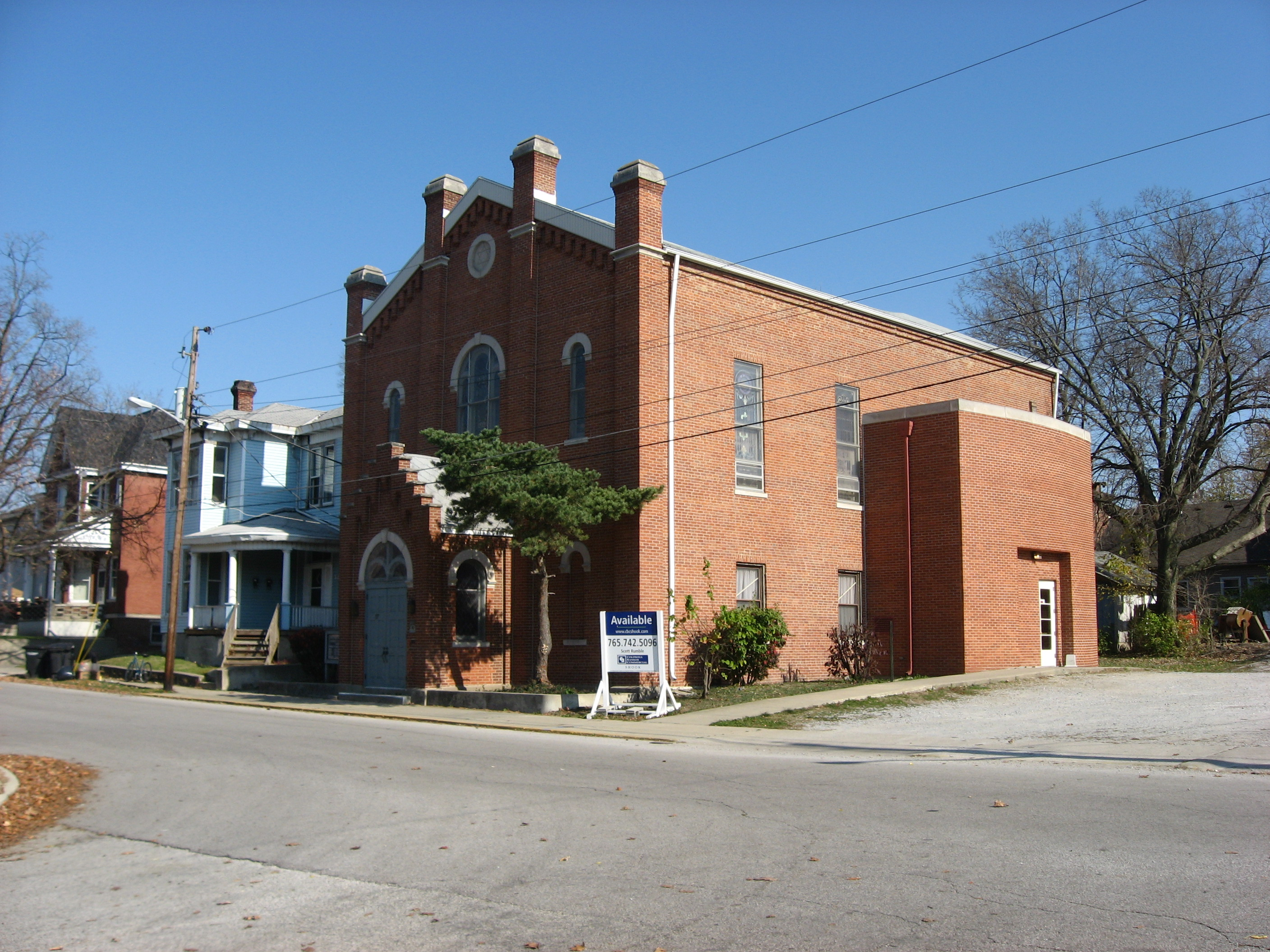 Front and southern side of the former Temple Israel, located at 17 S. Seventeenth Street in Lafayette, Indiana, United States. After its days as a synagogue, it was used as a Unitarian Universalist church, and is today used by a congregation of the Church of God in Christ. It is listed on the National Register of Historic Places.